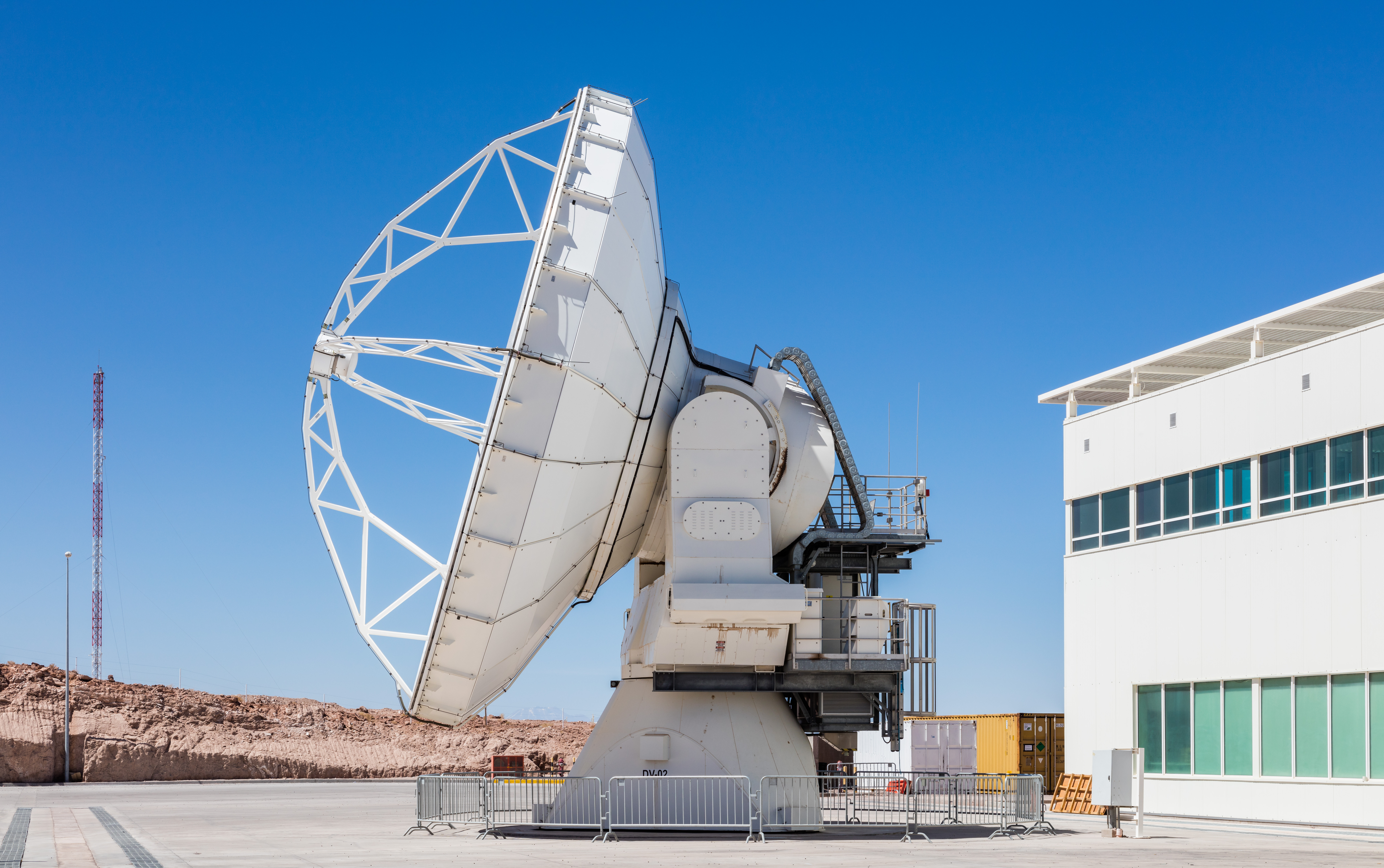 ALMA (Atacama Large Millimeter Array) space observatory, Atacama desert, Chile